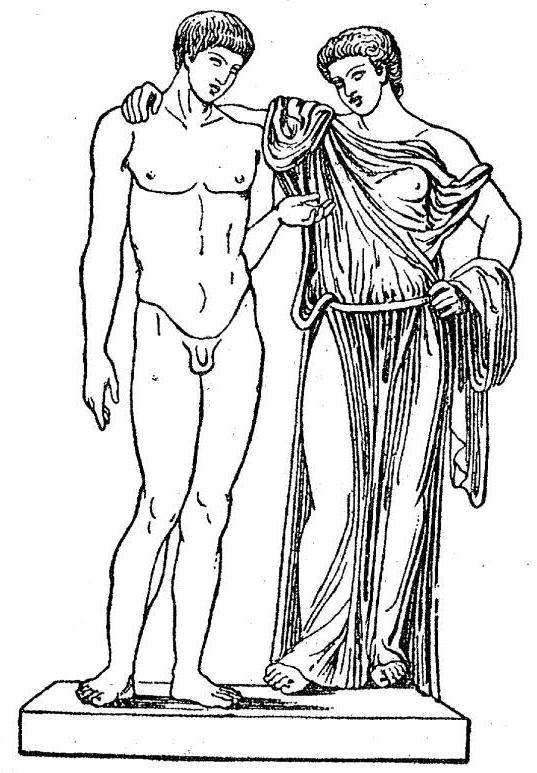 Orestes and Electra sculptural group. The original was found in the so-called Temple of Serapis in Pozzuoli (Italy), and is now in the Museo Archeologico in Naples (inv. nr. 6006)